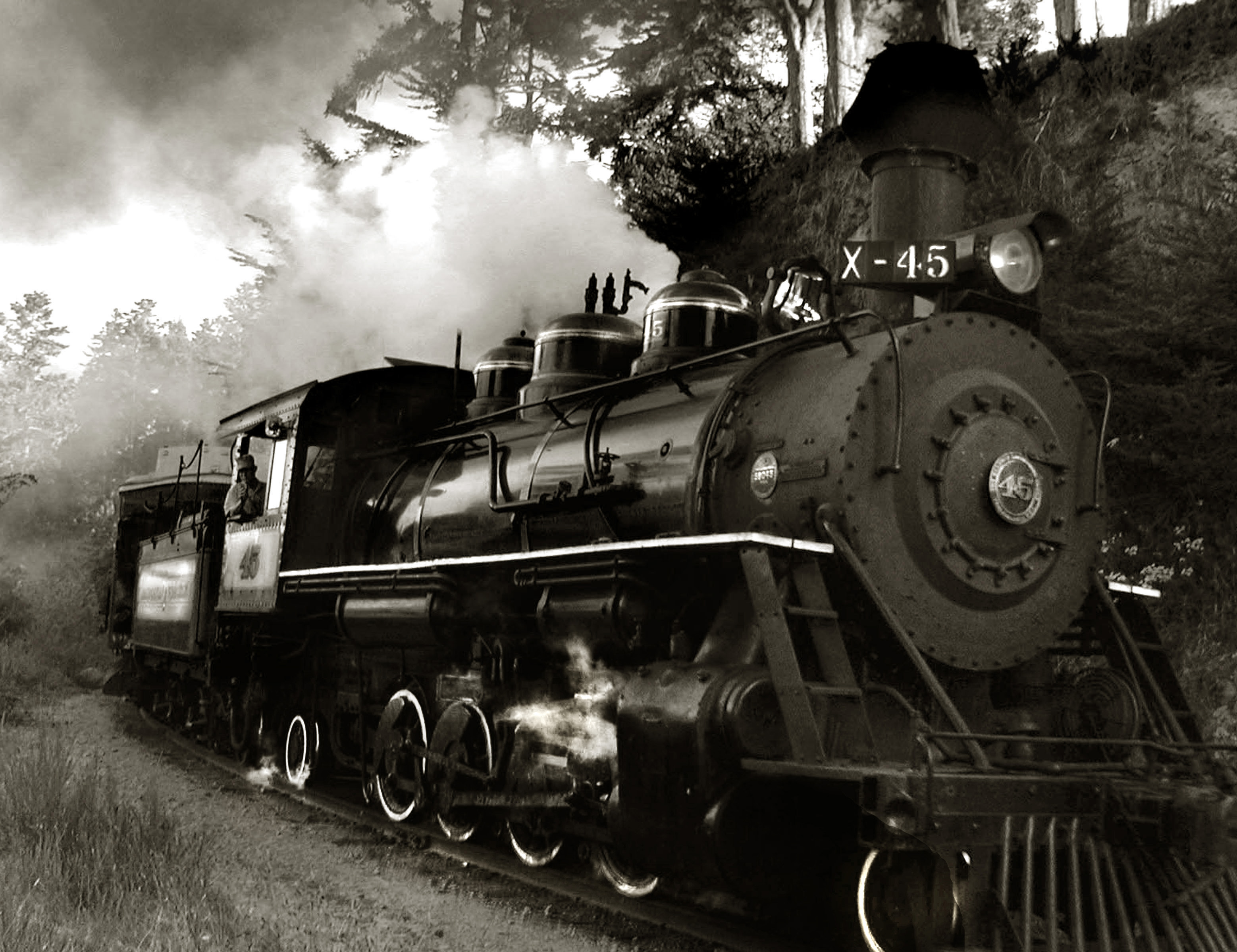 Locomotive #45 — of the California Western Railroad 'Super Skunk' scenic line. Making the turn into Fort Bragg, Mendocino County, California — in the Summer of 2001, when regular service ceased. By R.A. Sallinen III.